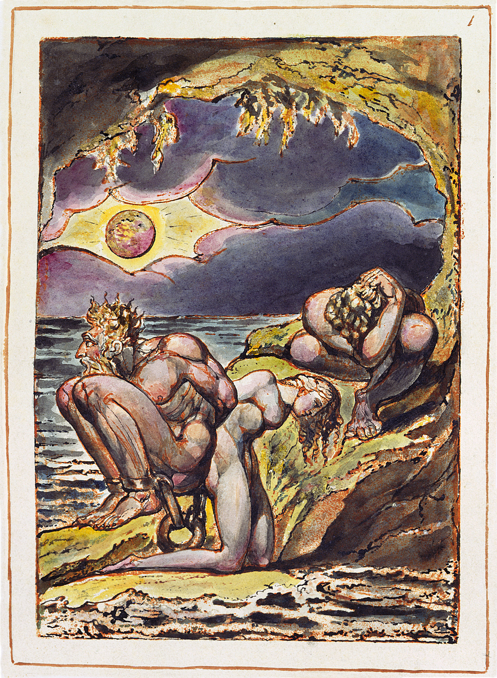 Visions of the Daughters of Albion copy O object 1 - British Museum